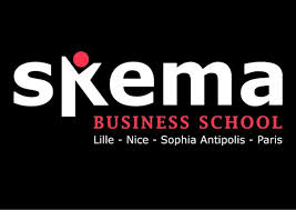 SKEMA Business School Logo